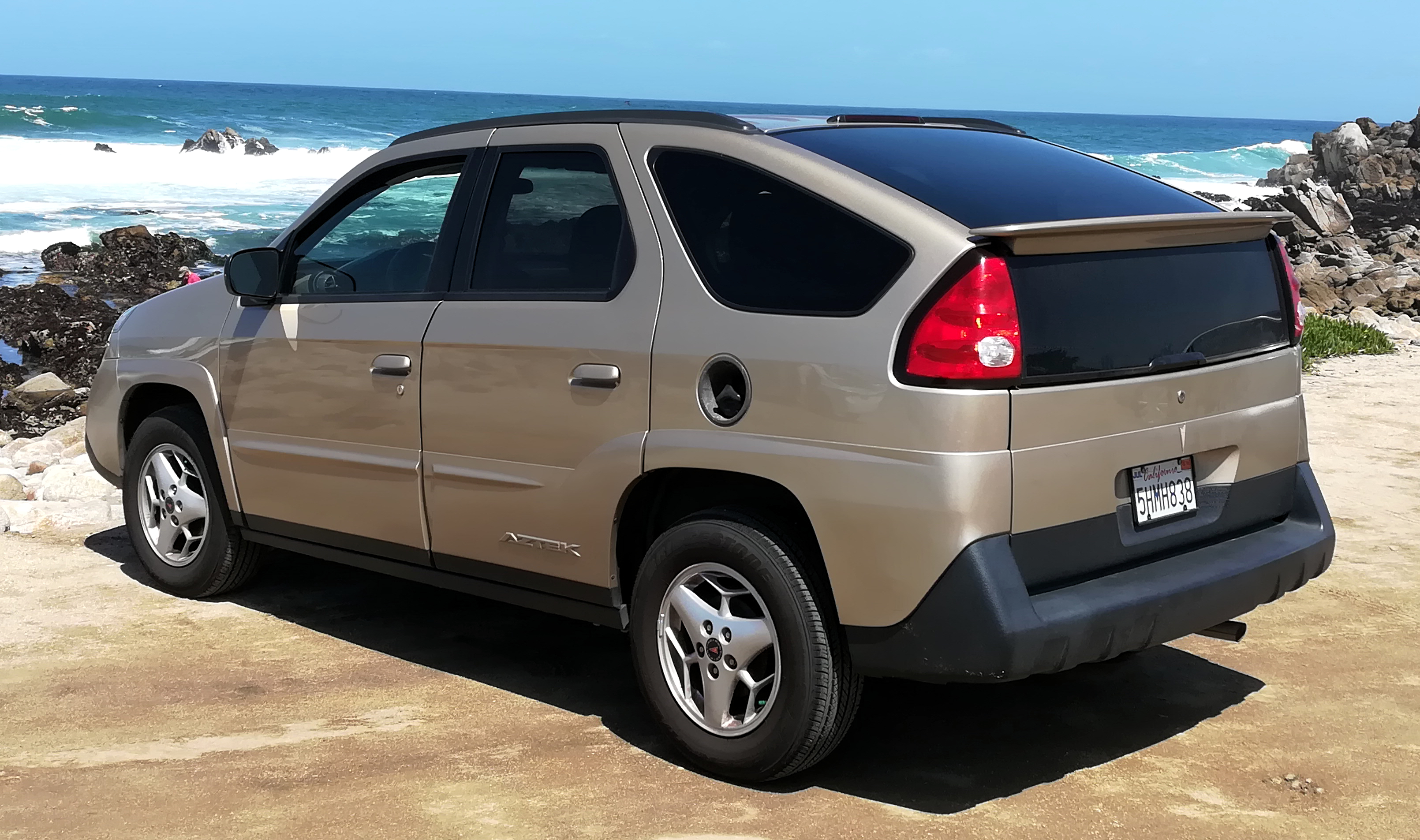 Pontiac Aztek in California